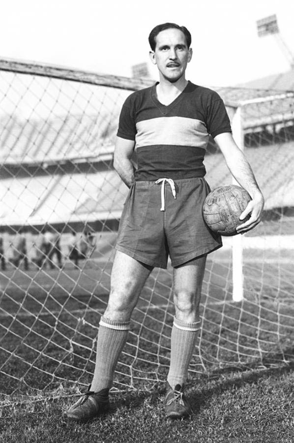 Eliseo Mouriño while playing for Boca Jrs.